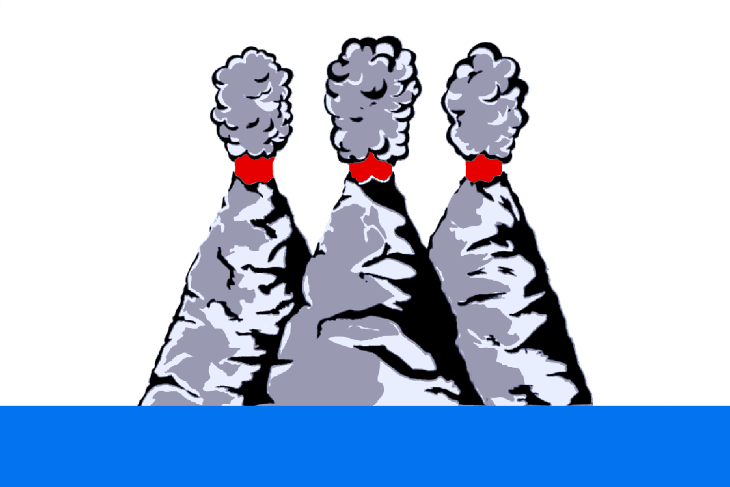 Flag of Petropavlovsk-Kamchatsky, Kamchatka Krai, Russia